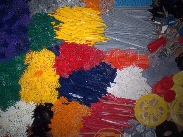 A lot of K'nex pieces.